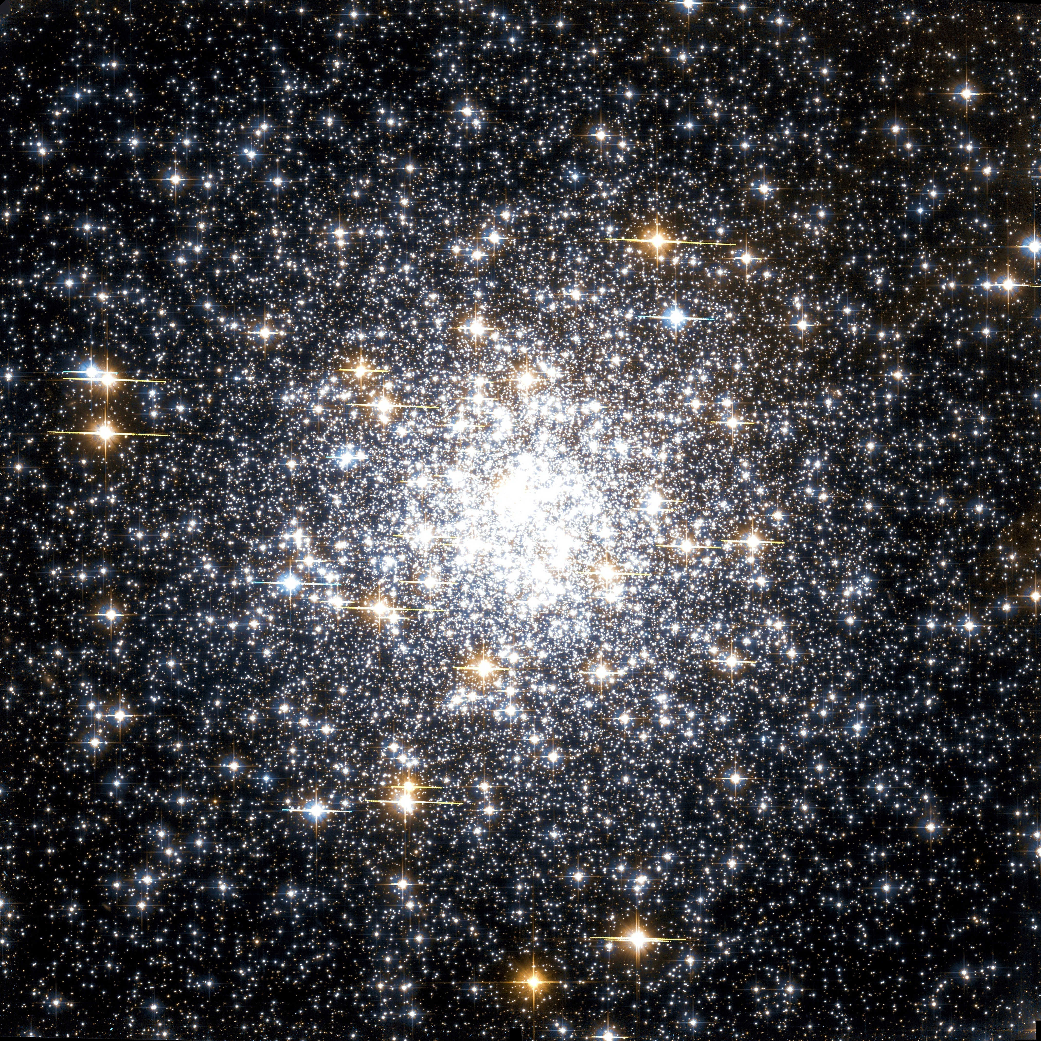 Messier 69 globular cluster by Hubble Space Telescope